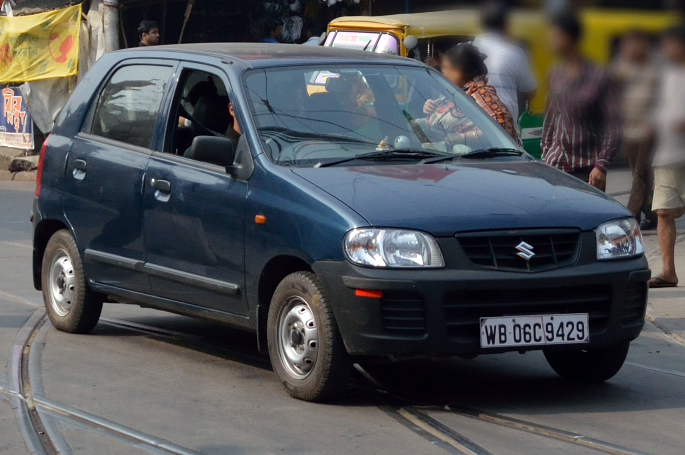 Maruti Alto photographed during the 'Wikipedia/Wikimedia Photowalk' event for the 'Wikipedia Takes Kolkata III' campaign on 23 February 2014, in northern part of Kolkata.